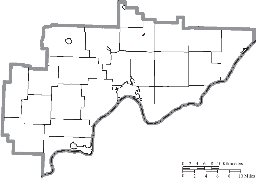 Map of the municipal and township boundaries of Washington County, Ohio, United States, as of the 2000 census, with the location of the village of Lower Salem highlighted. Township borders are shown only in unincorporated areas in order to differentiate incorporated and unincorporated areas more clearly.